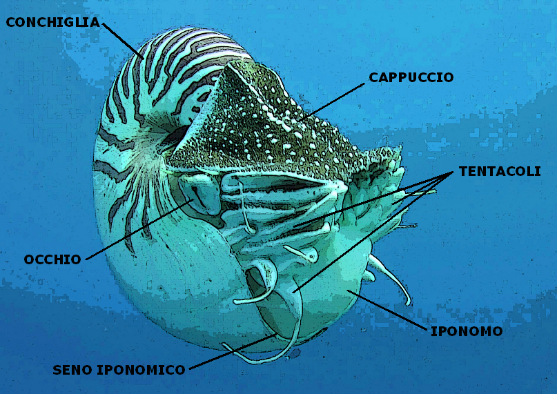 External characters of a nautiloid. text in italian.